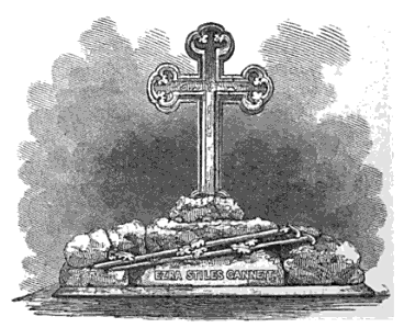 Portrait of Ezra S. Gannett.